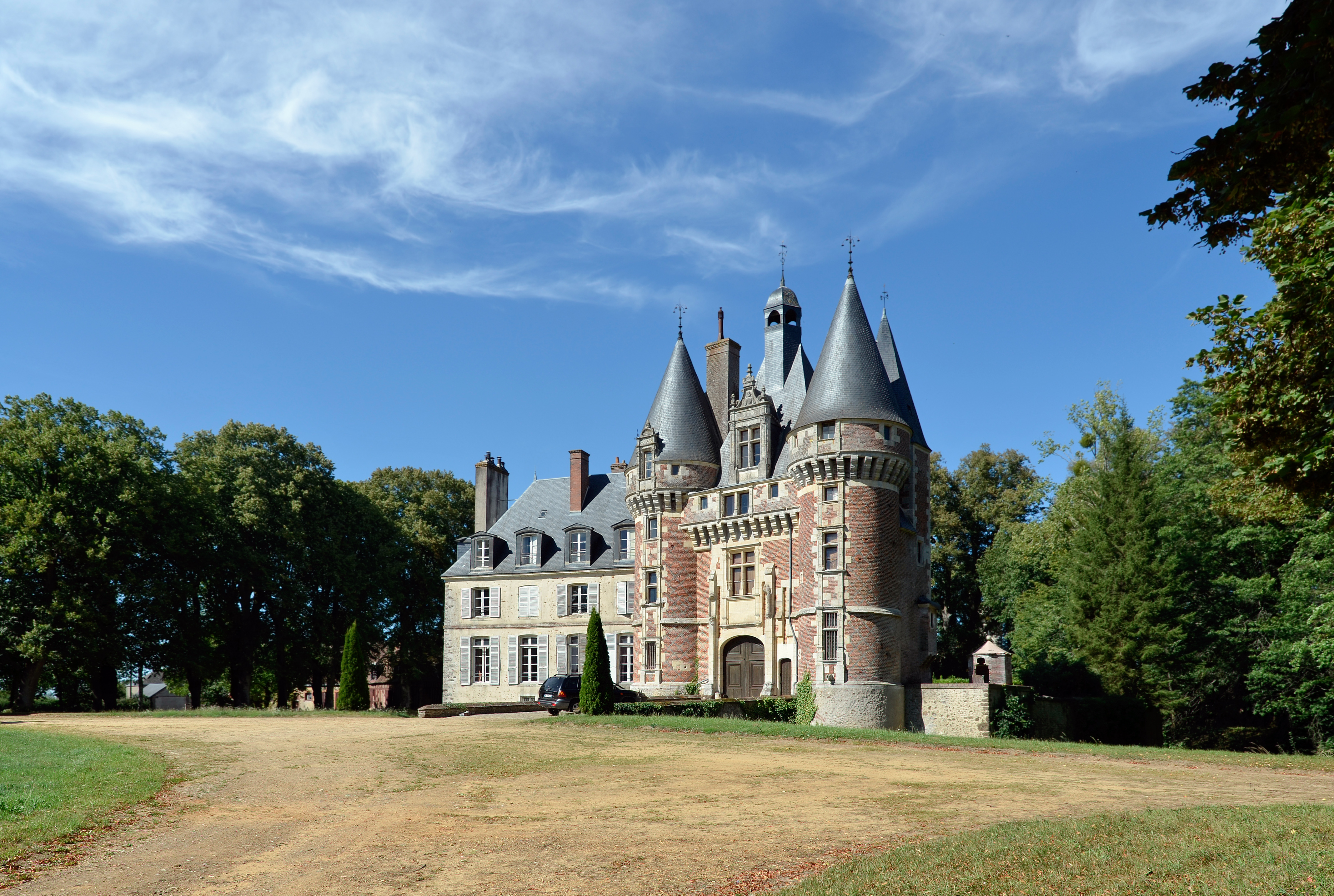 Castle of Saint-Agil - Saint-Agil, Loir-et-Cher, France .